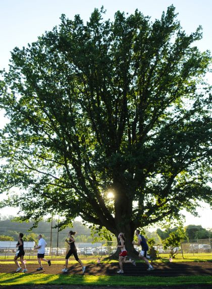 John Woodruff's Olympic Tree growing in Connellsville, Pennsylvania